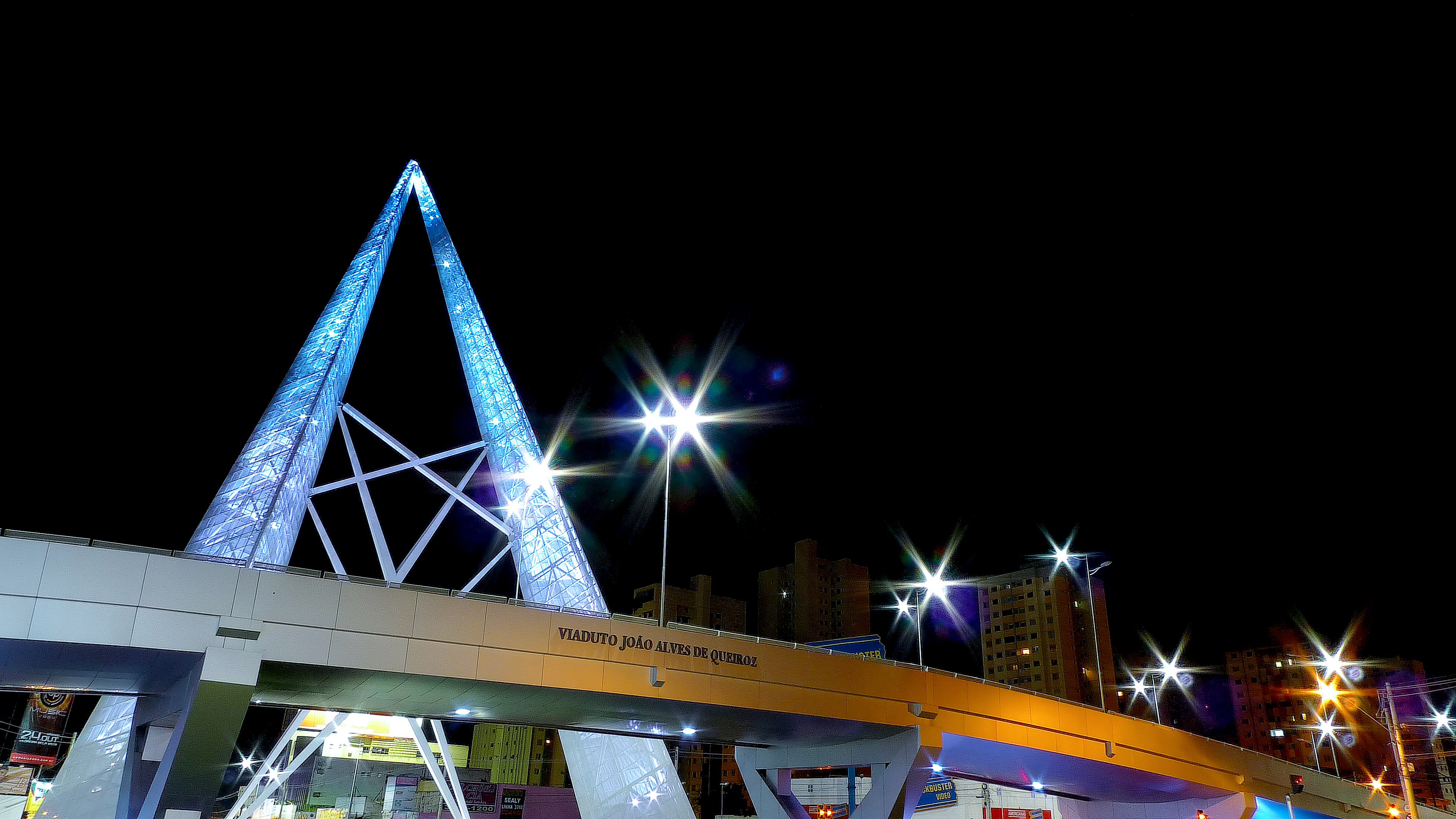 Goiania by-night